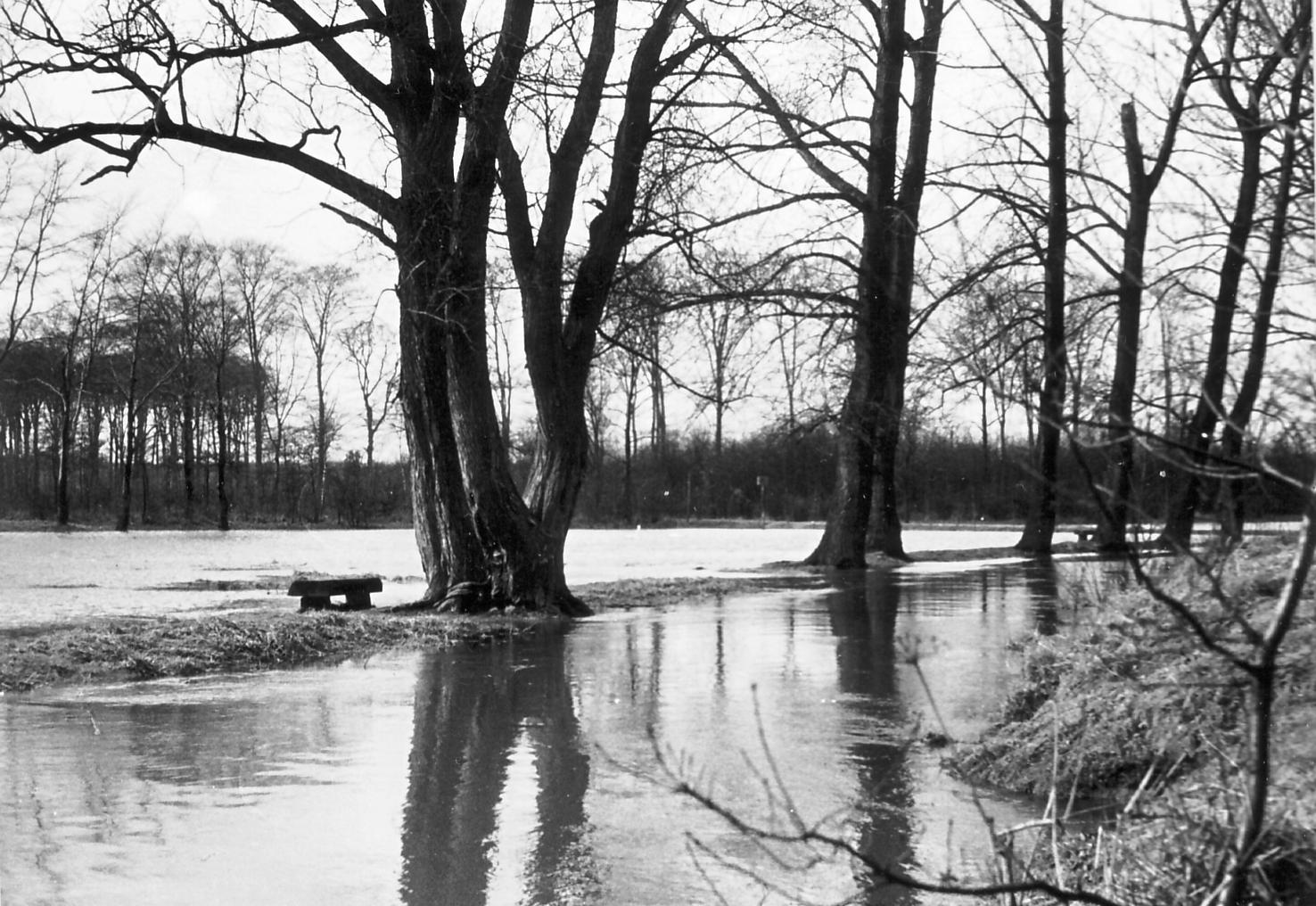 Dickelsbach (stream) in Duisburg, Germany. Flood in 1962, February.